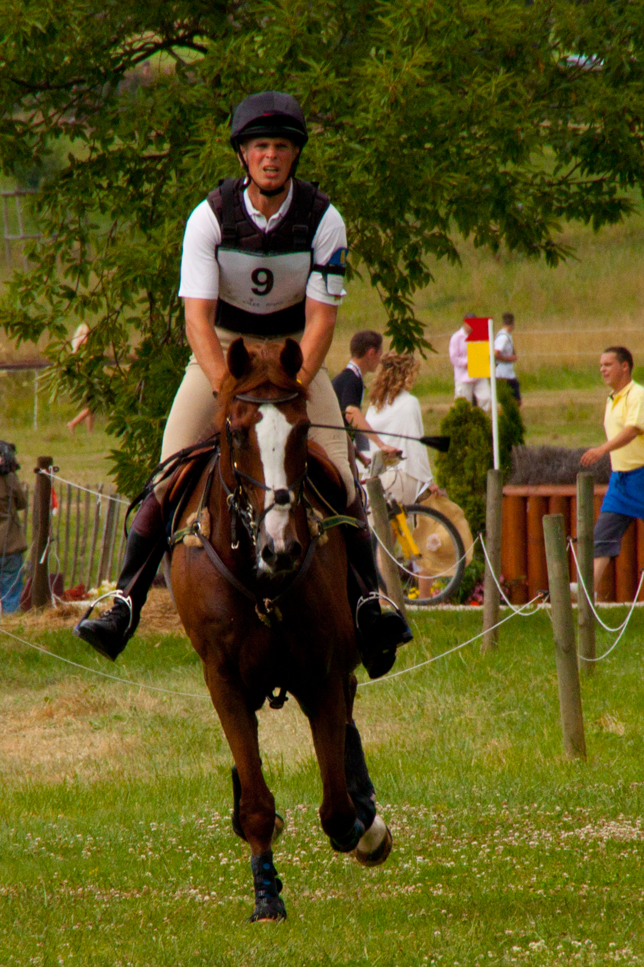 Eventing at the 2010 CHIO Aachen: Frank Ostholt on Mr. Medicott